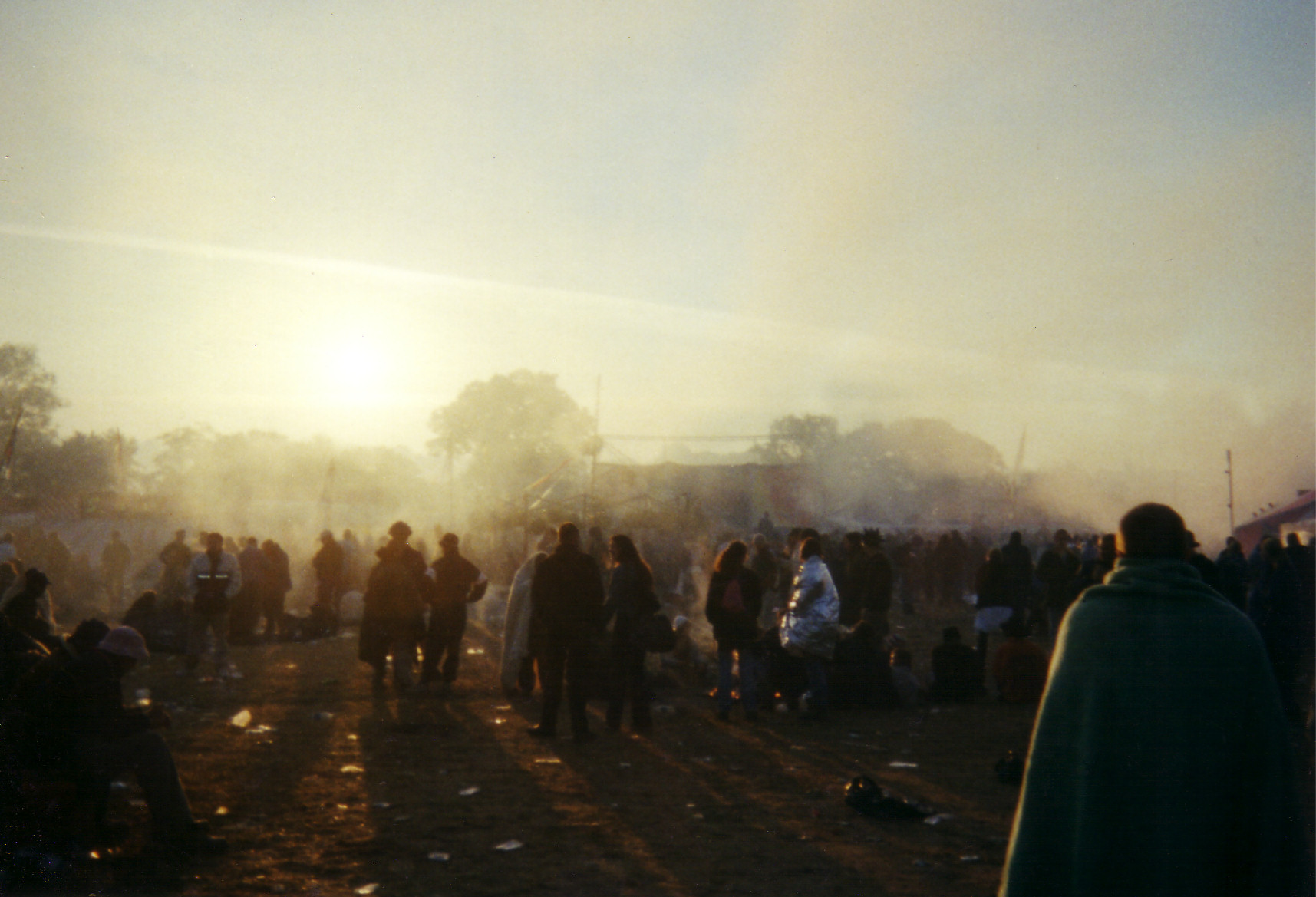 Dawn breaks at Glastonbury Festival in the year 2000